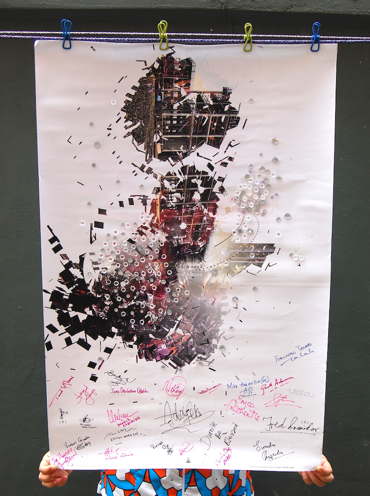 Digital art painting titled Philosopher's Legacy, created by Ade Olufeko. Originally created in 2013 later revised and reissued in 2017